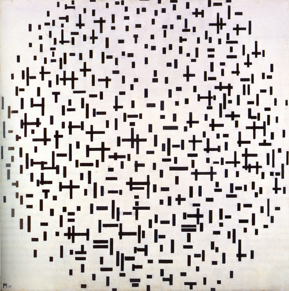 Composition in line, second state (Kroller-Muller Museum)